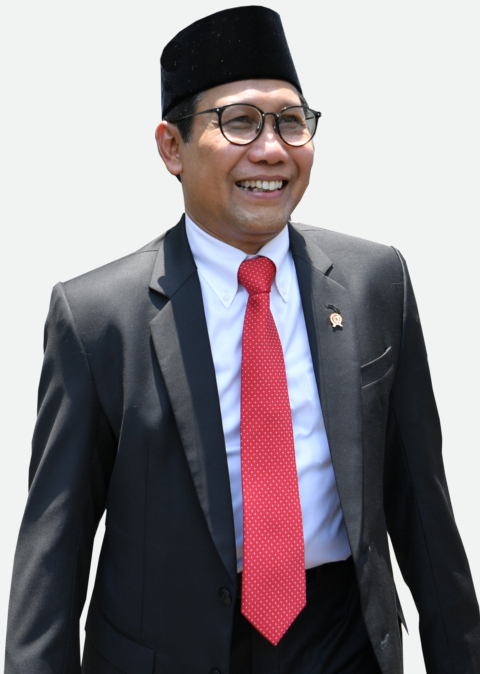 Minister of Villages, Development of Disadvantaged Regions, and Transmigration of the Republic of Indonesia, Abdul Halim Iskandar. He was appointed by President Joko Widodo at 23 October 2019